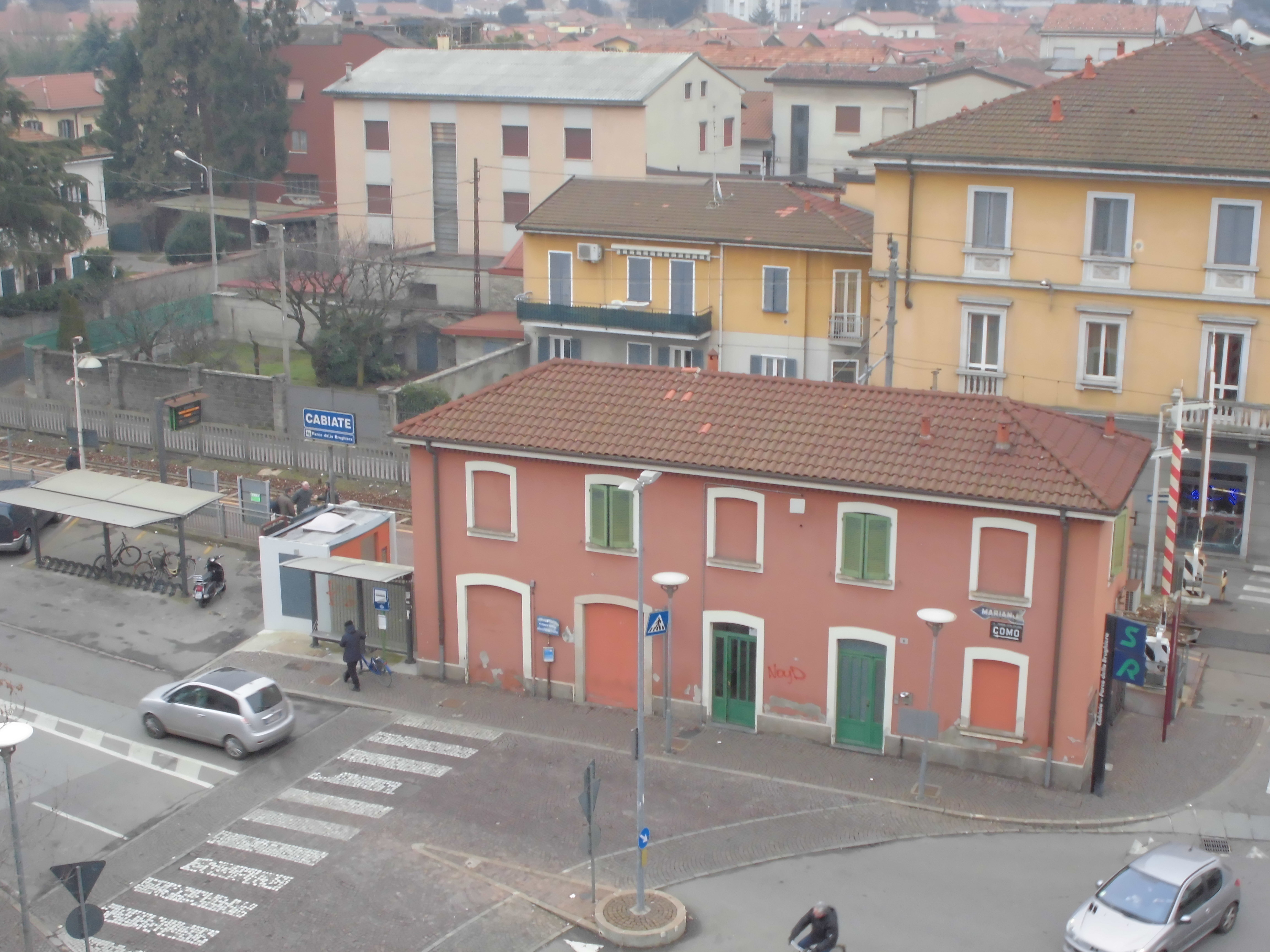 This photo shows Cabiate railway station.